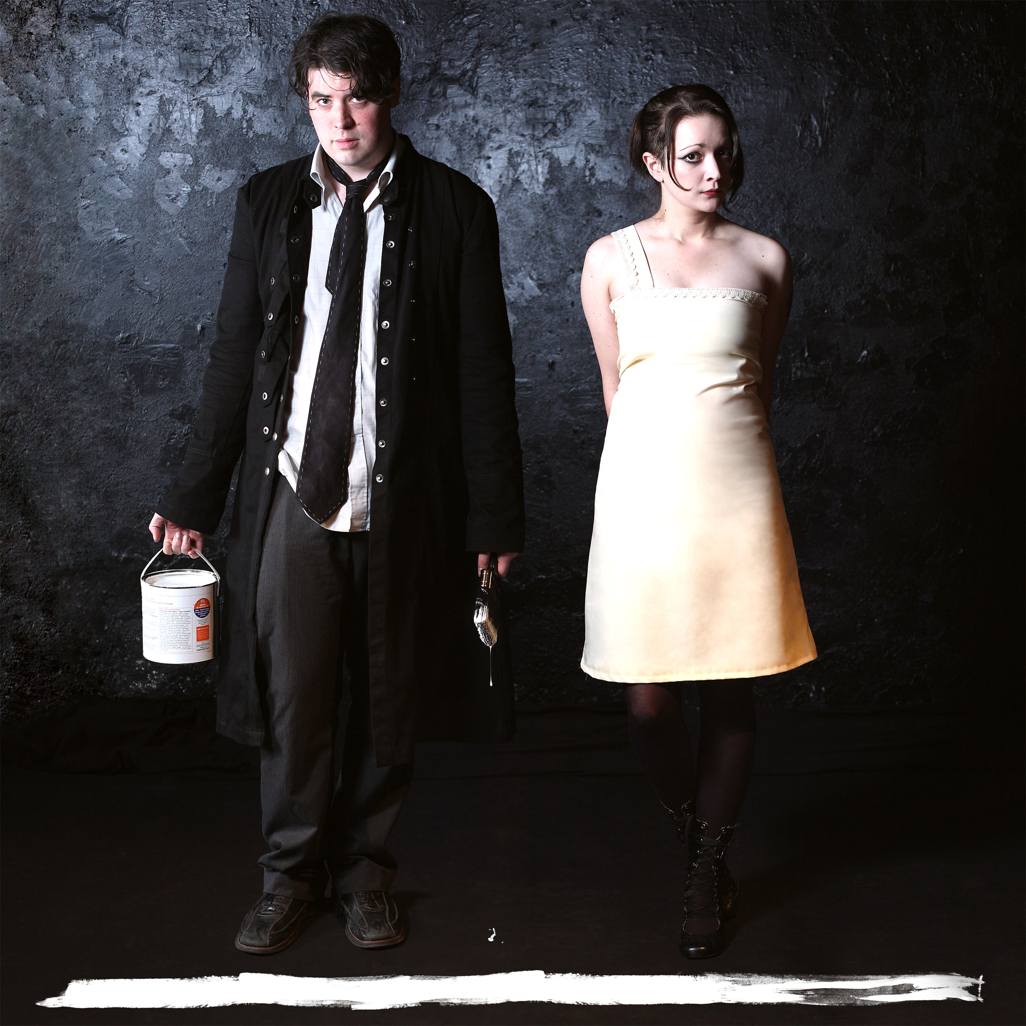 Image of The Indelicates